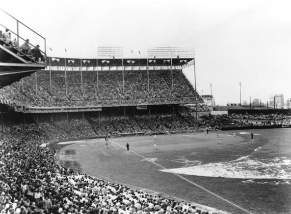 Kansas City Athletics play their first game at Municipal Stadium in Kansas City. Former President Harry S. Truman (not visible in this photograph) attended the game. Copyright listed as "unrestricted" here.